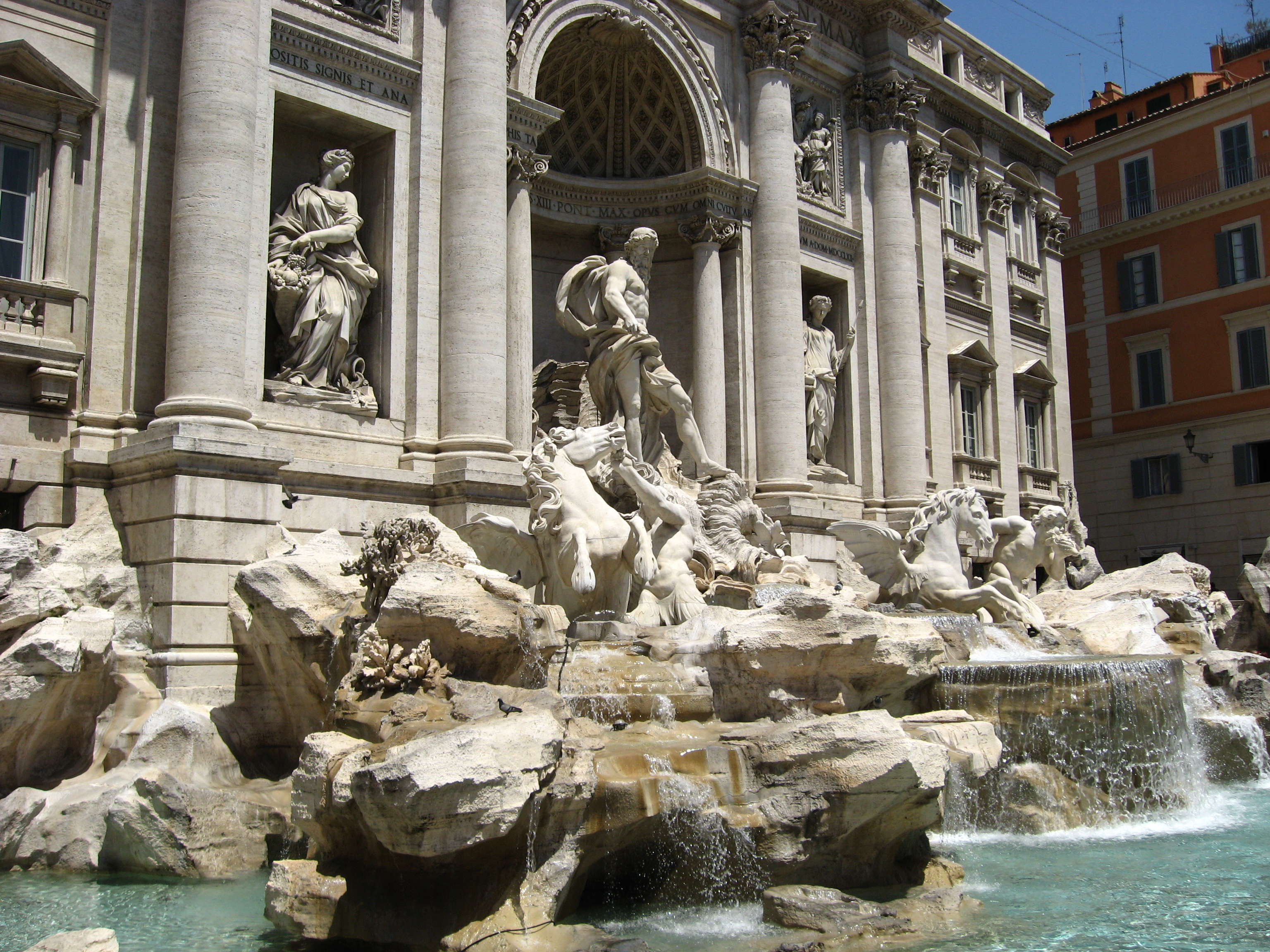 Trevi Fountain